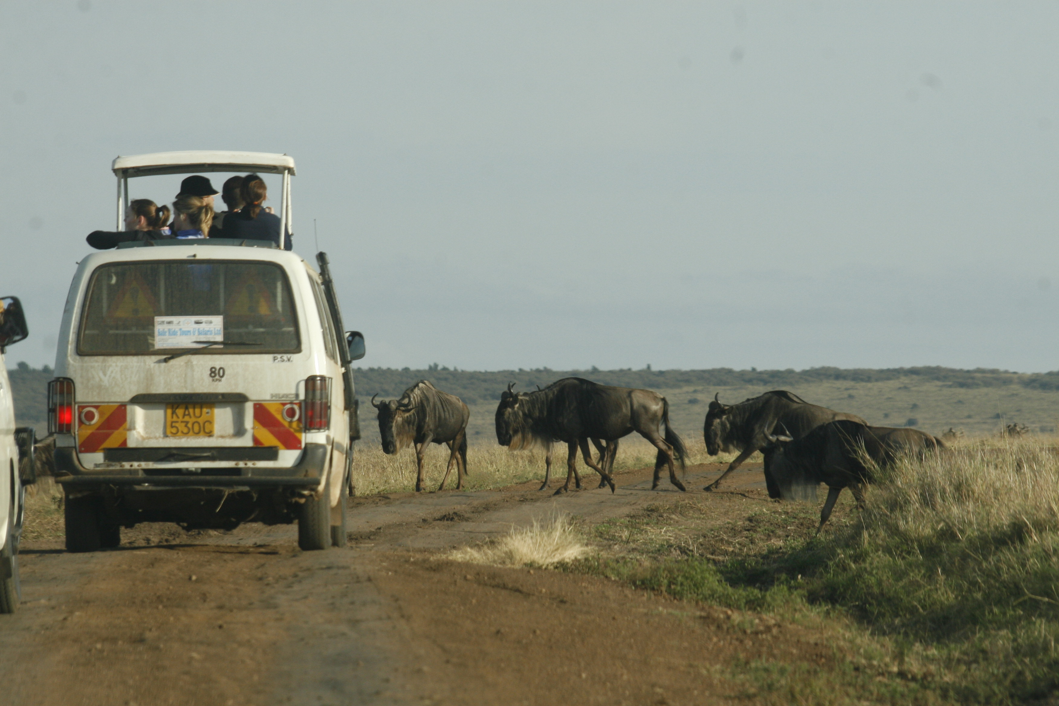 Tourists drive through the Masaai Mara viewing Wildebeests.